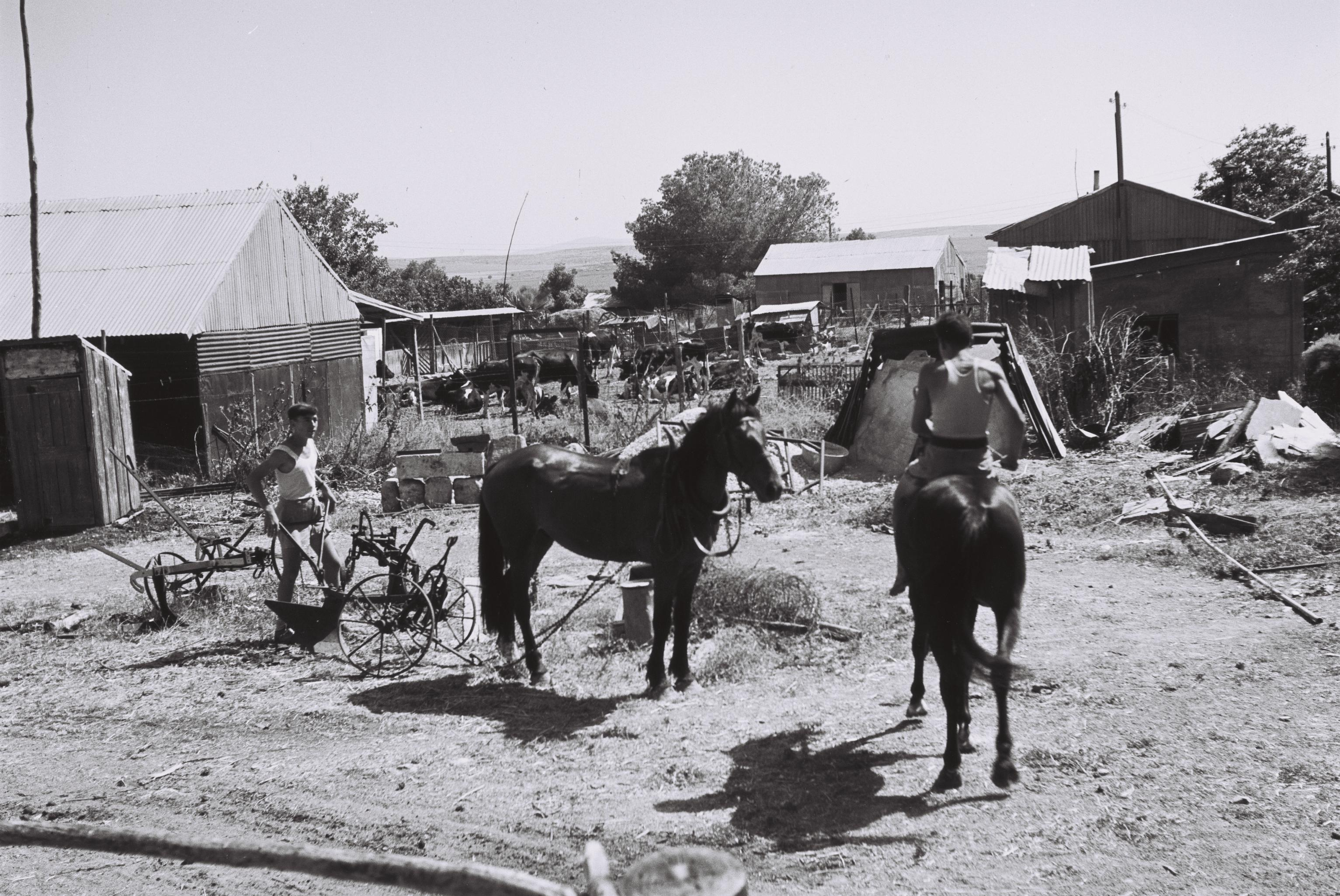 A FARMER AT NAHALAL. חווה במושב נהלל.